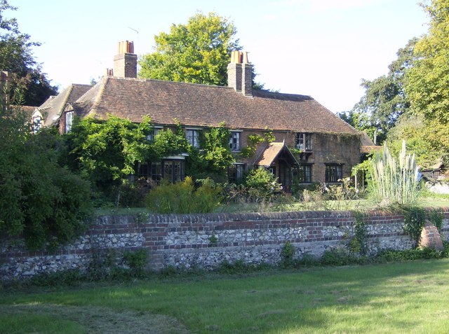 "Howards End" Peppard Cottage, overlooking Peppard Common, is the house used in the film version of E.M.Forster's book "Howards End".